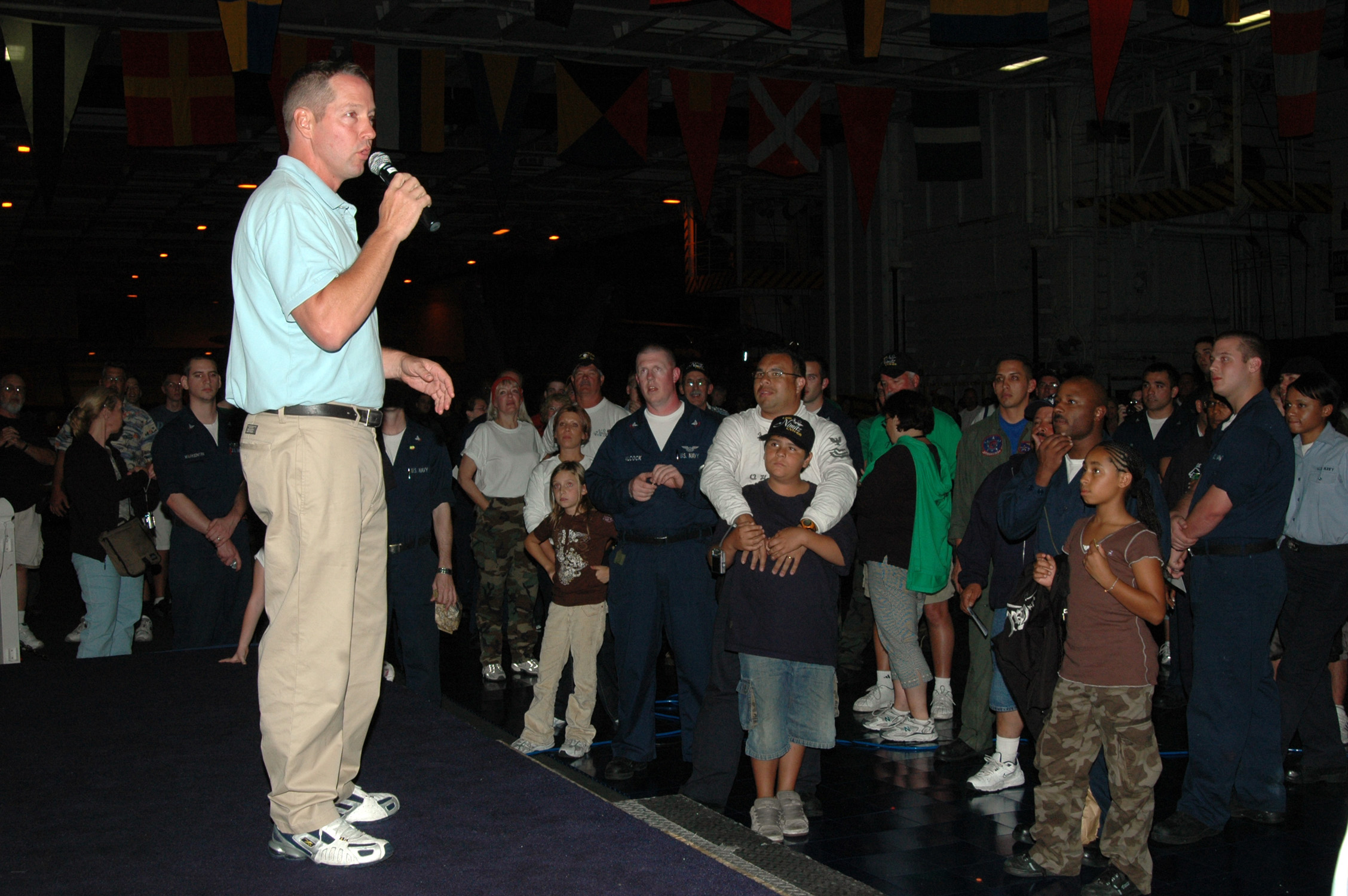 070927-N-7128A-179 PACIFIC OCEAN (Sept. 27, 2007) - Actor D.B. Sweeney talks to Sailors and their family members in the hangar bay of nuclear-powered aircraft carrier USS Nimitz (CVN 68) following the special Tiger Cruise showing of his film "Two Tickets to Paradise." Nimitz Strike Group and embarked Carrier Air Wing (CVW) 11 are returning to their homeport of San Diego after a six-month deployment.